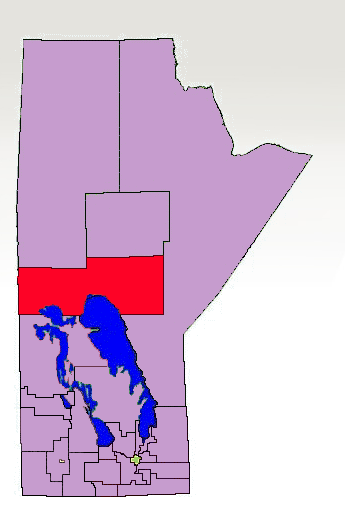 The 1998-2011 boundaries for The Pas electoral district highlighted in red